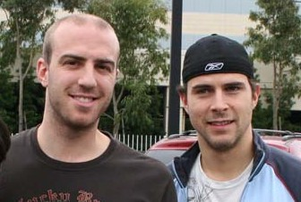 Mathieu Garon and Tom Kostopoulos, Canadian ice hockey players, playing 2006/07 for L.A. Kings